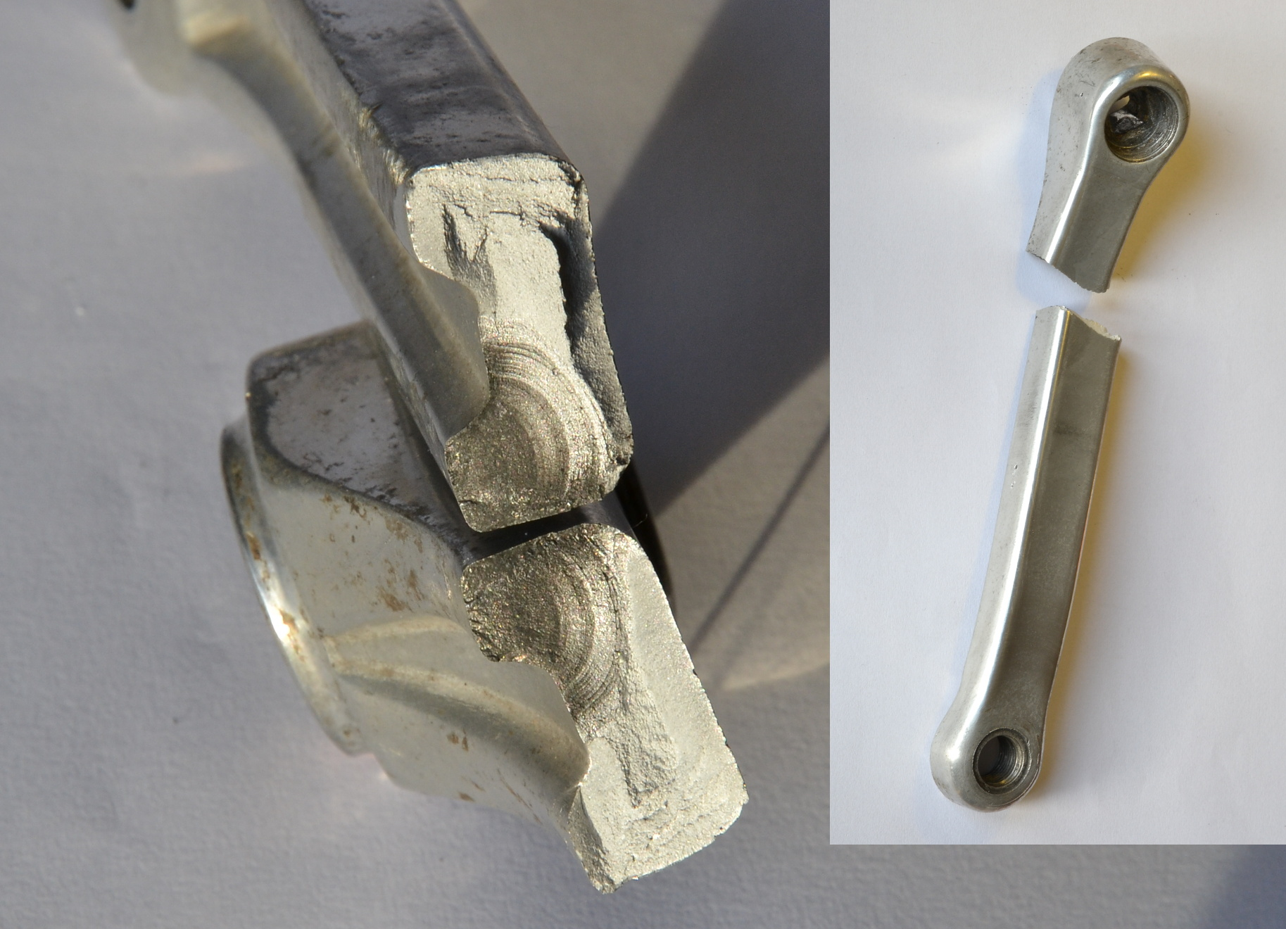 broken bicycle crank. Dark area: slow fatigue crack growth with lines of rest; bright area: sudden crack